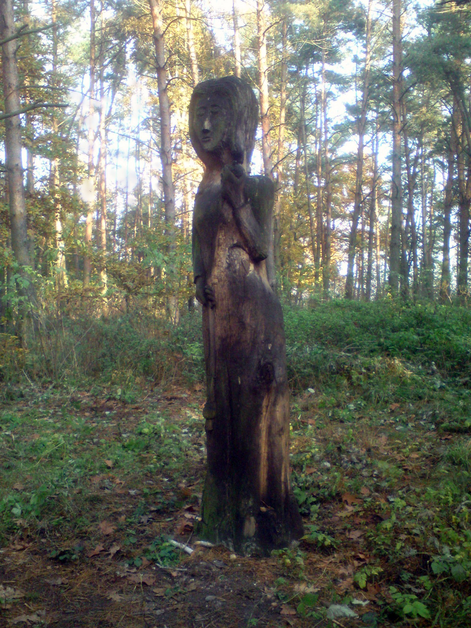 Modern wooden statue of the goddess Mokosh